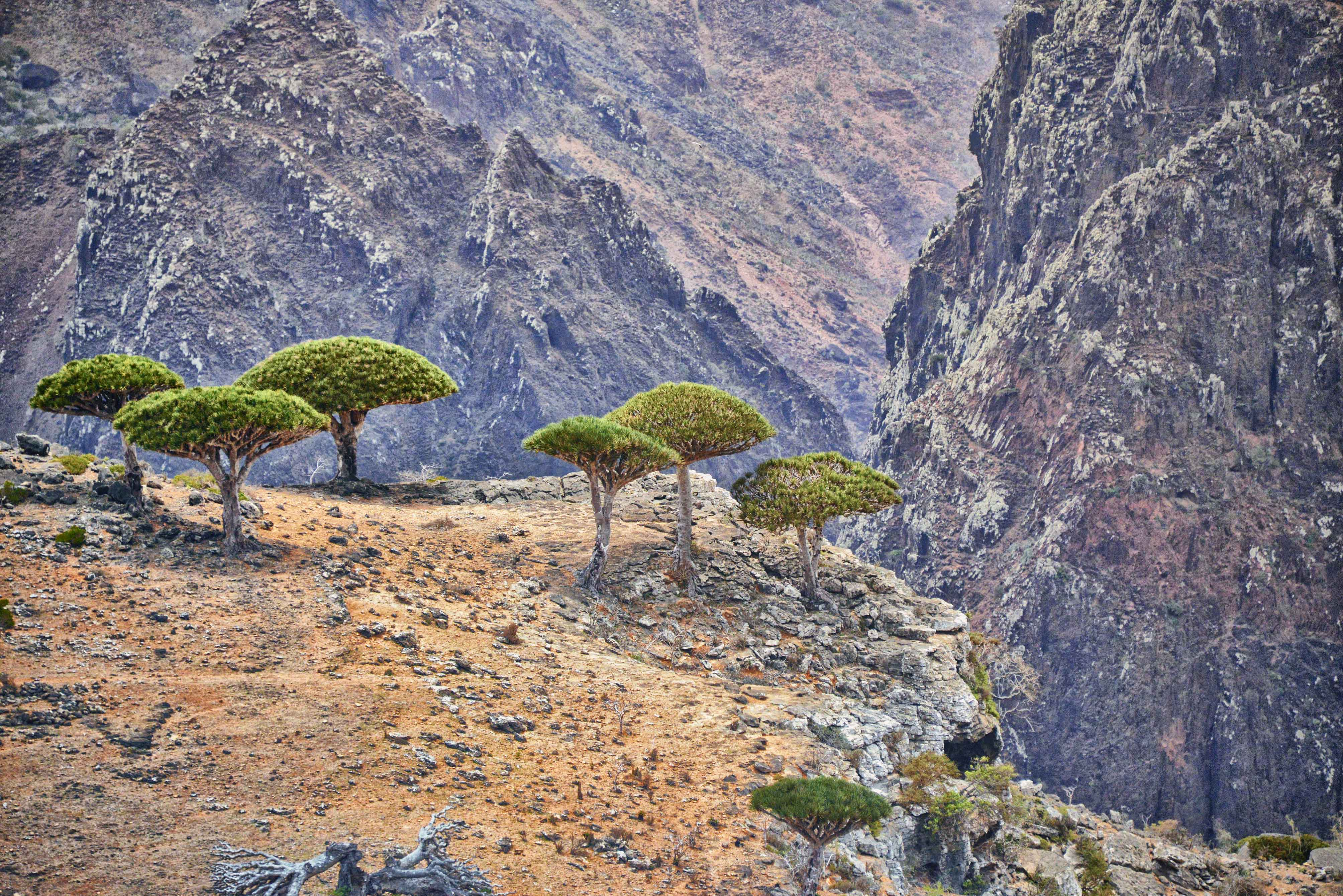 Dragon's Blood Tree (Dracaena cinnabari) — trees endemic to/on Socotra island, Yemen.